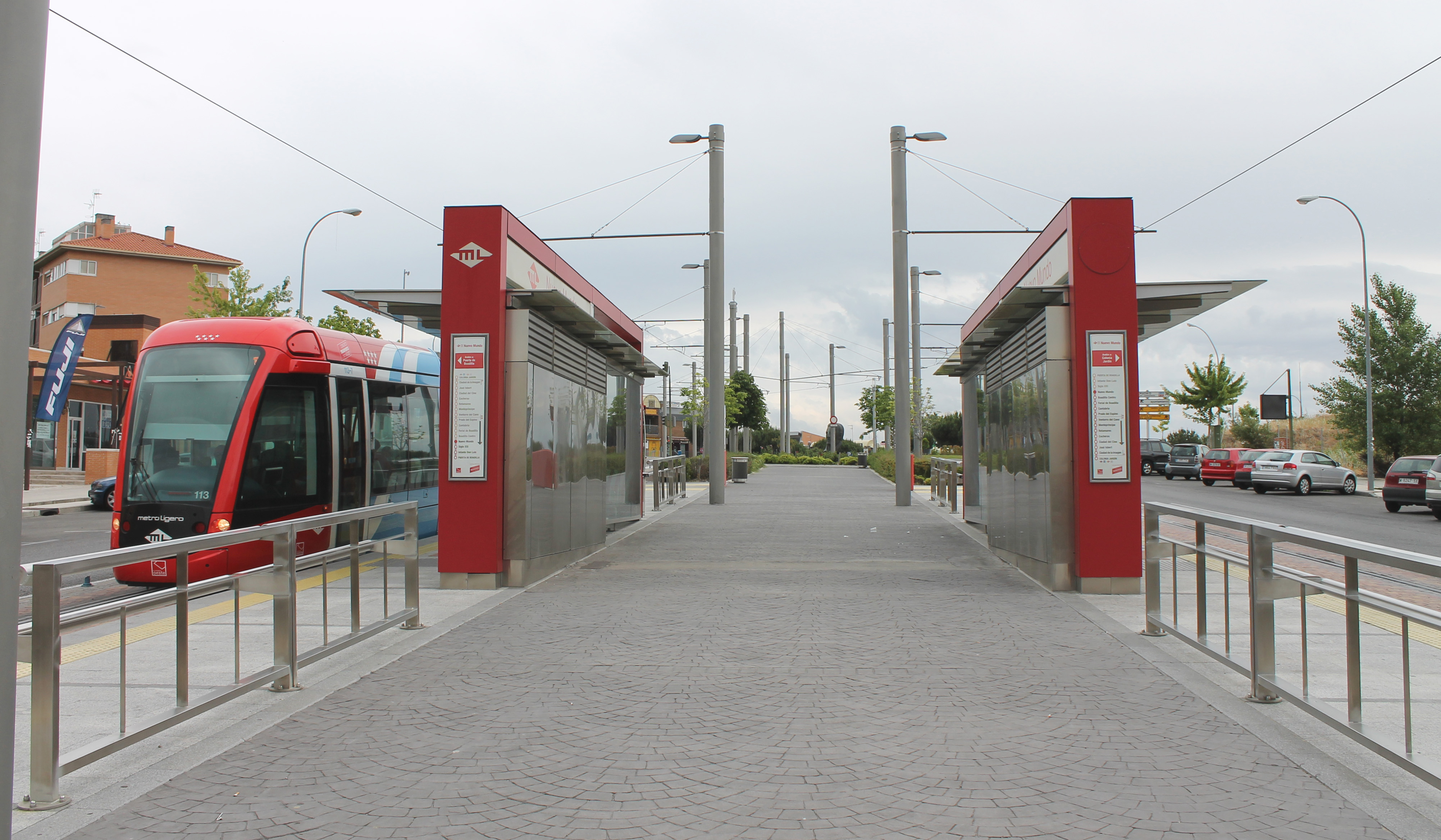 View of Nuevo Mundo Metro Ligero station in Boadilla del Monte (Community of Madrid, Spain).